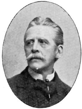 Image scanned from the book "Svenskt Porträttgalleri XX - Arkitekter, Bildhuggare, Målare m.fl. " ("Swedish Portrait Gallery XX - Architects, Sculptors, Painters, ") published 1901